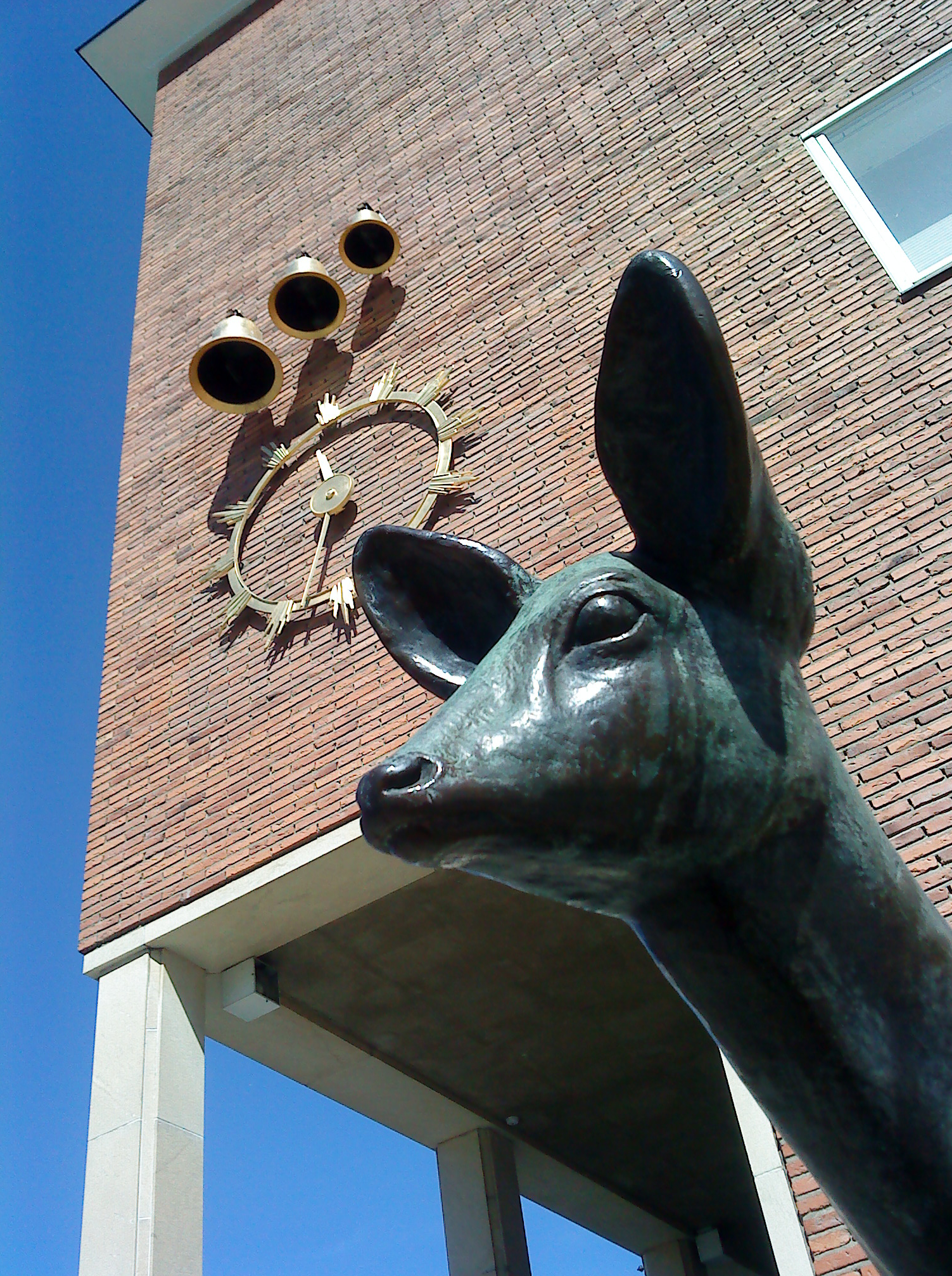 The sculpture "Hjortdjur" by Arvid Knöppel 1956.